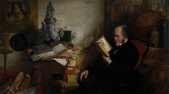 David Laing (1793 – 1878) was a Scottish antiquary.